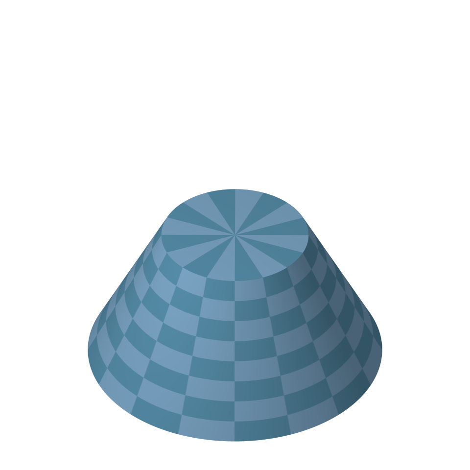 Blue-cone-cap This image was created with POV-Ray.